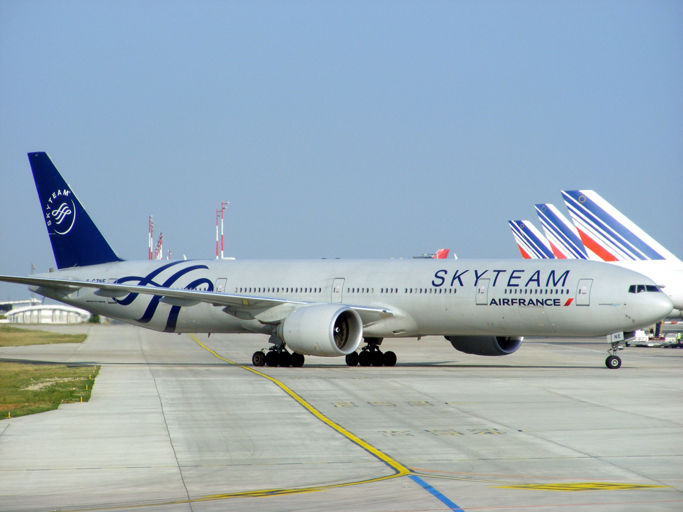 Air France Boeing 777-328ER F-GZNE Skyteam livery @ Paris CDG